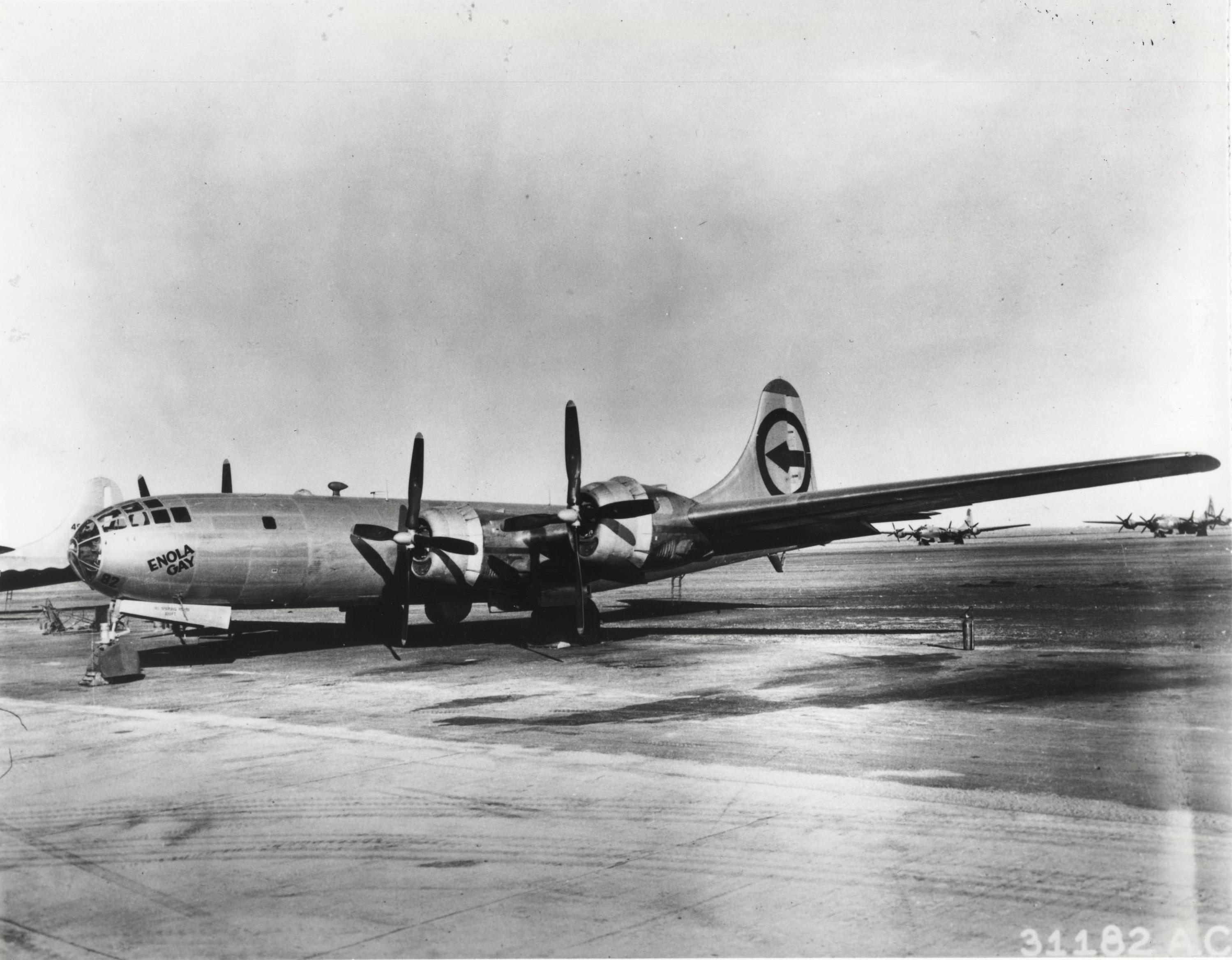 Enola Gay